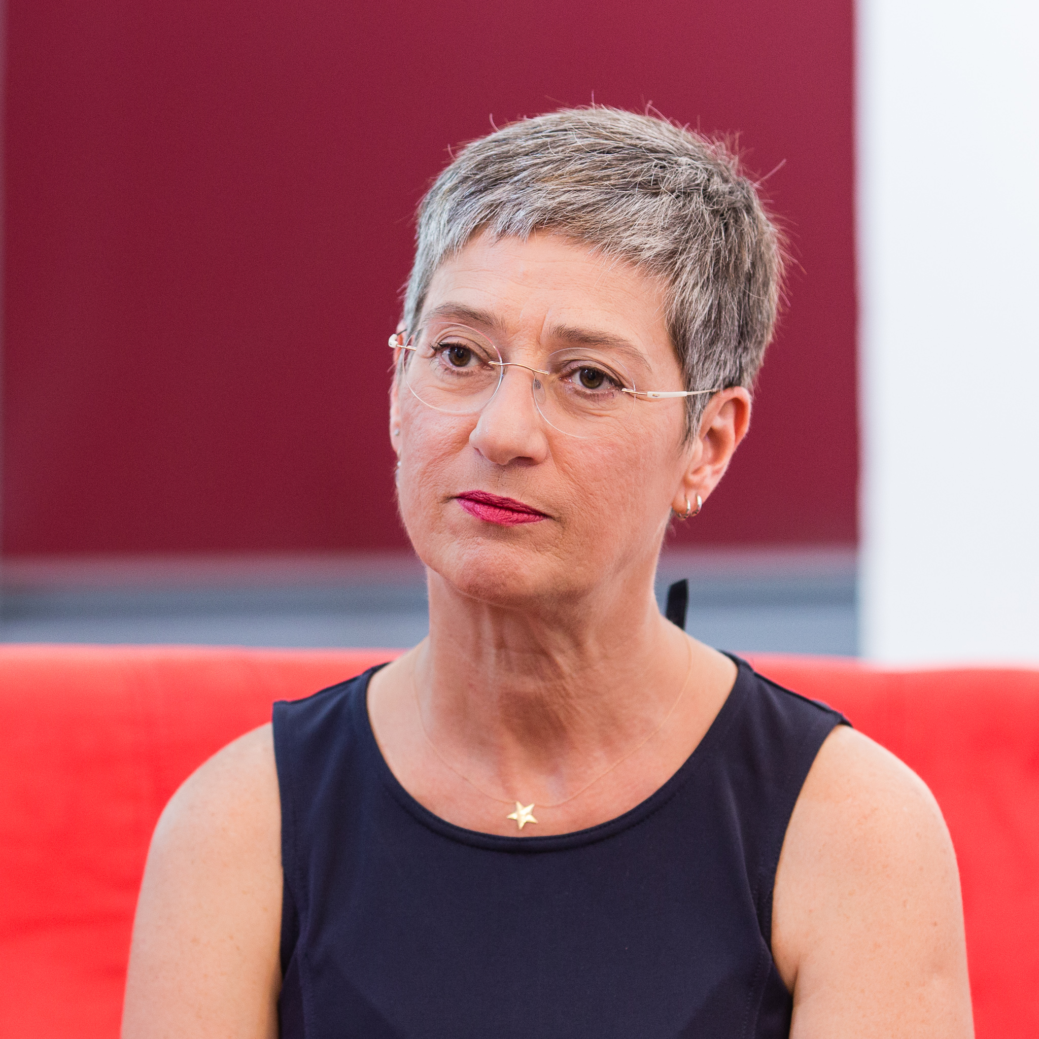 Ayfer Tunç on Authors’ Reading Month 2018, Wrocław, Poland